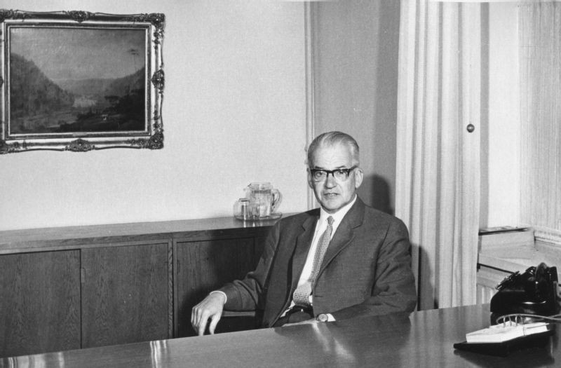 Photograph of the Finnish business executive Torolf Sörensen (1910–1990) at Nokia corp.